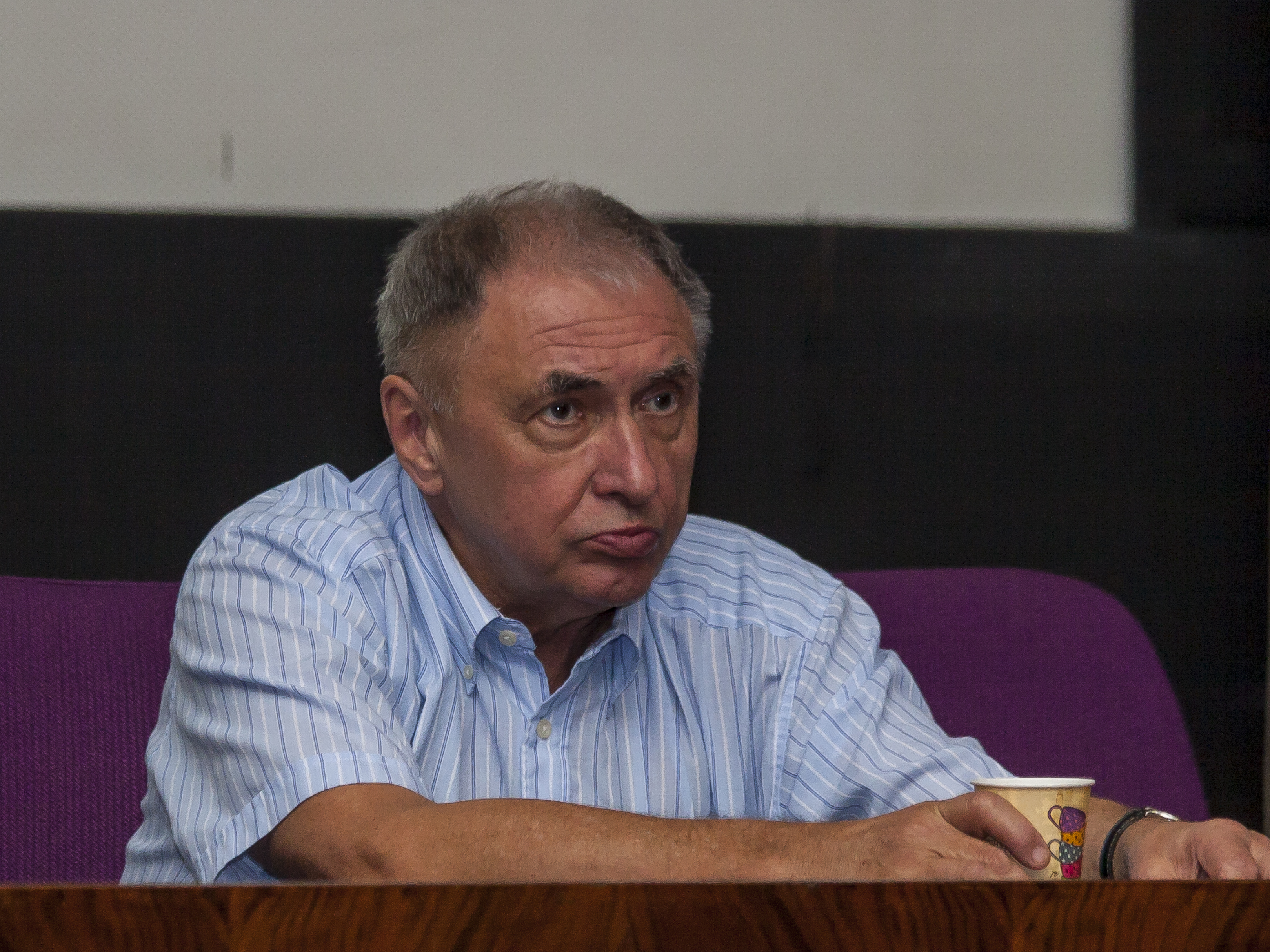 Ukrainian neurophysiologist and biophysicist Oleh Kryshtal